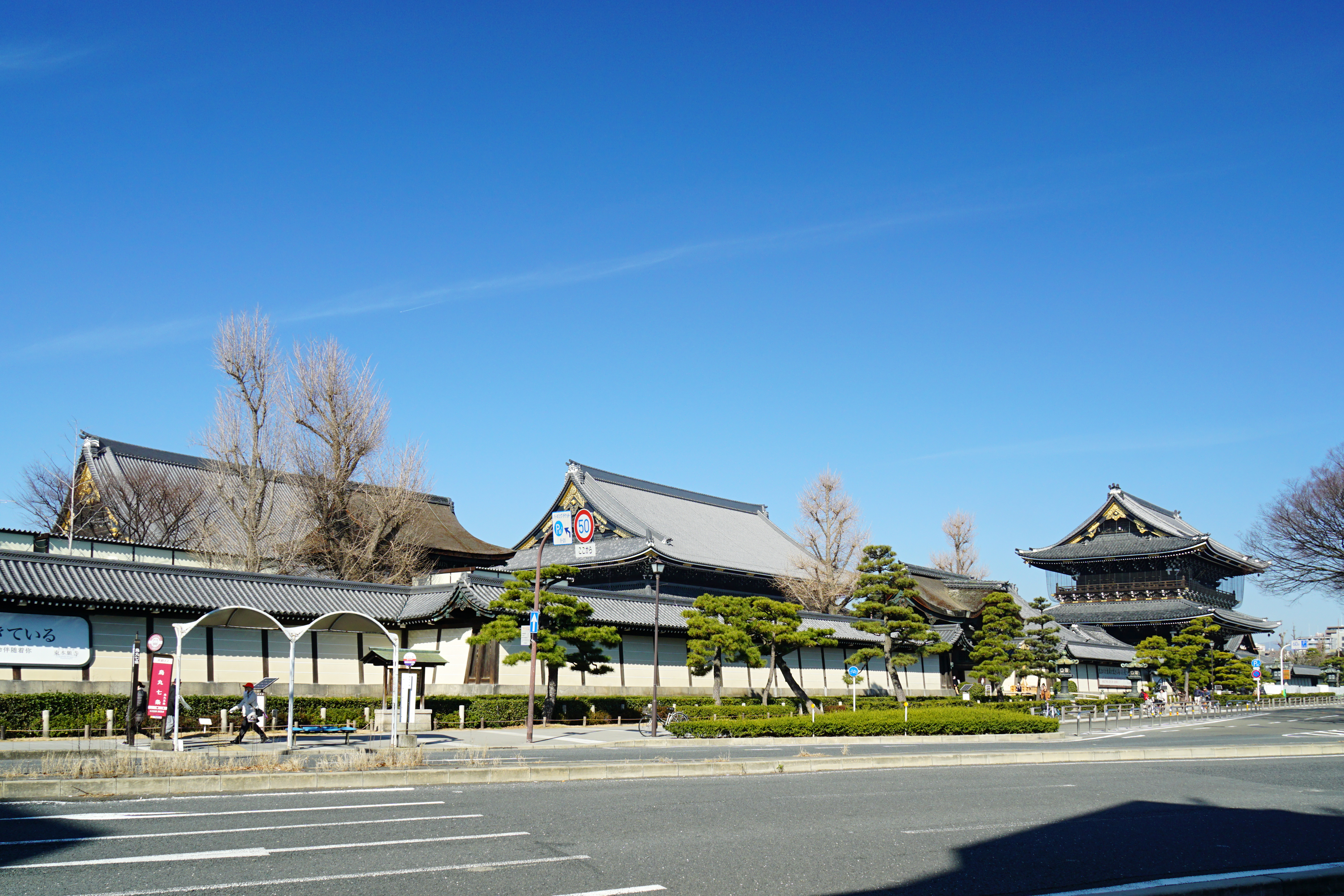 Higashi Honganji in Kyoto, Kyoto prefecture, Japan